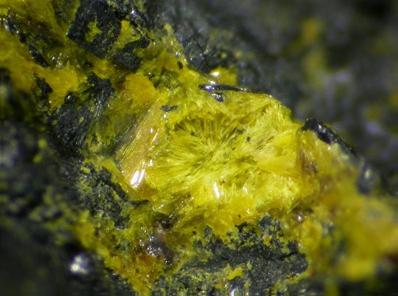 Uranopilite Locality: Shinkolobwe Mine (Kasolo Mine), Shinkolobwe, Central area, Katanga Copper Crescent, Katanga (Shaba), Democratic Republic of Congo (Zaïre) (Locality at ) Field of view 4 mm. Specimen and photo Leon Hupperichs.